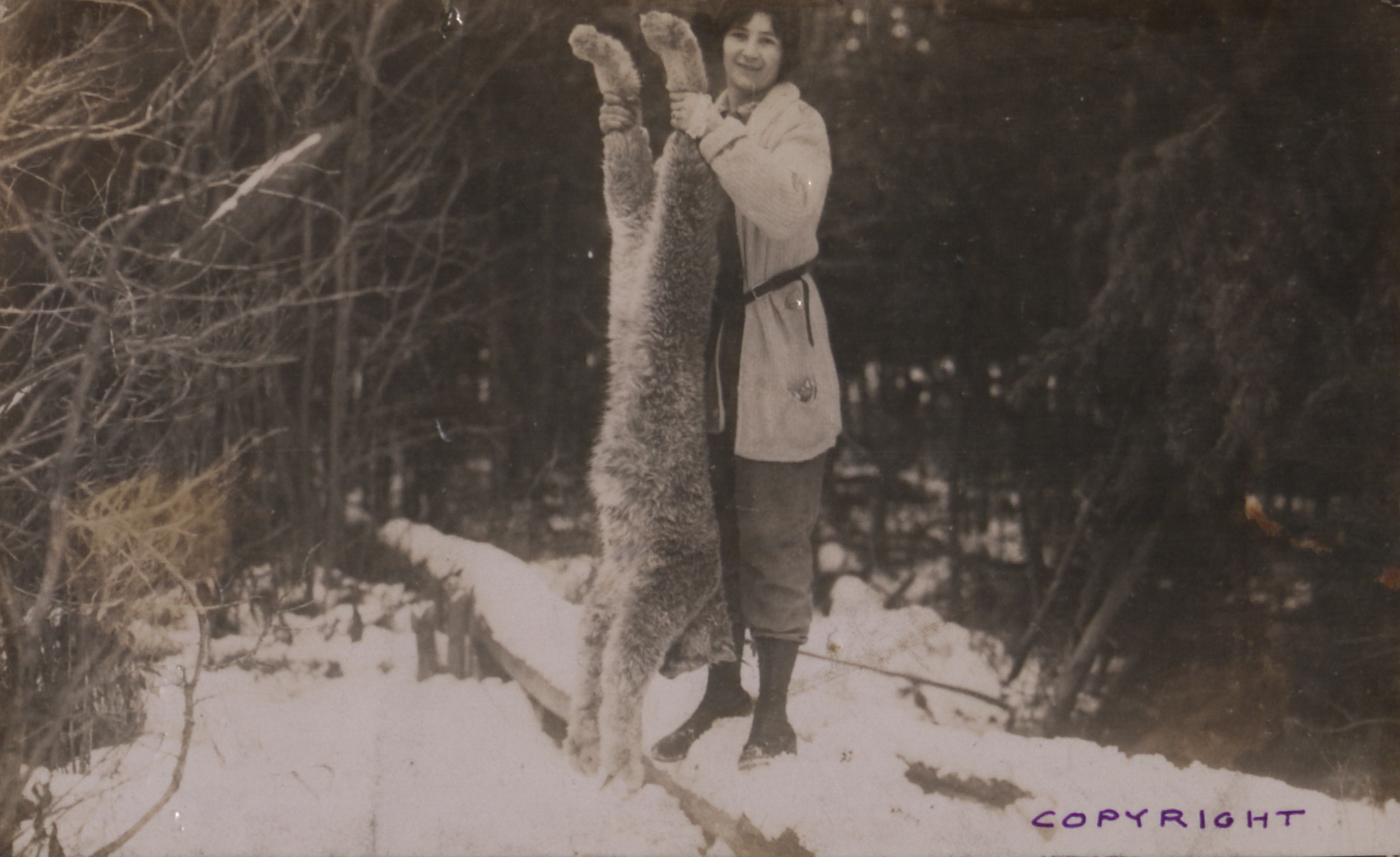 Original caption: “The captive lynx, Photo C.”